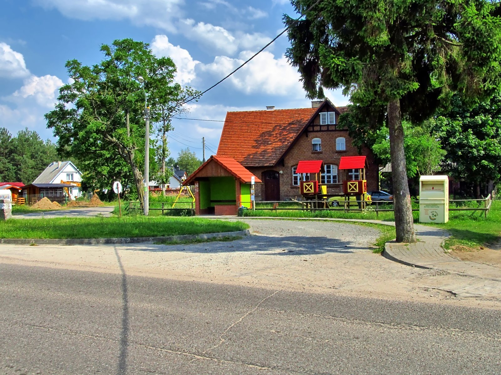 Rondo was the school and bus stop